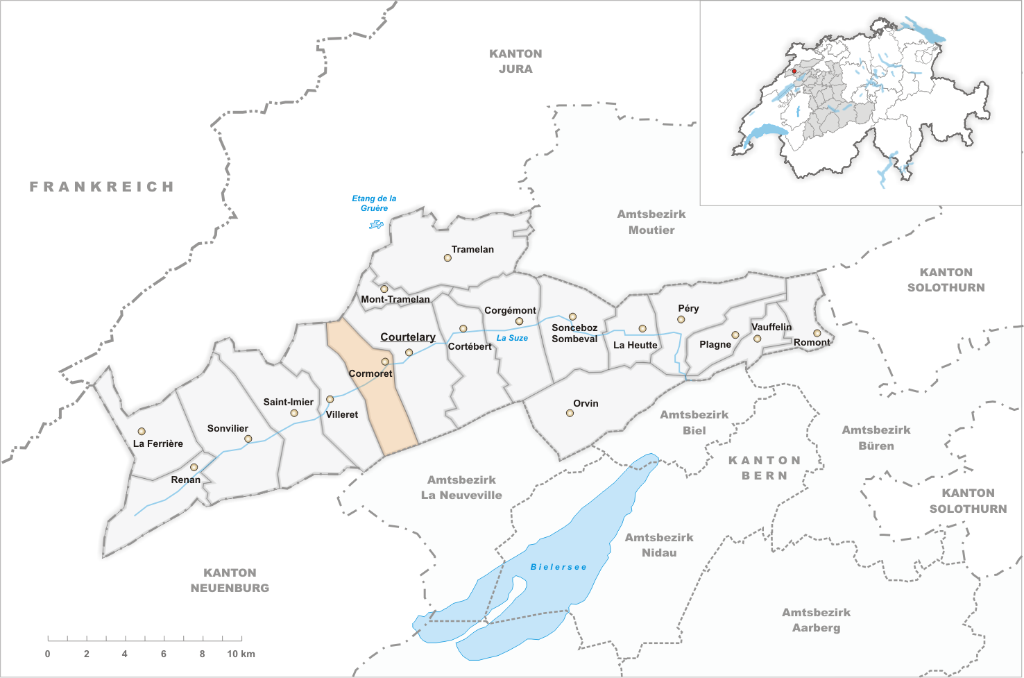 Municipality Cormoret